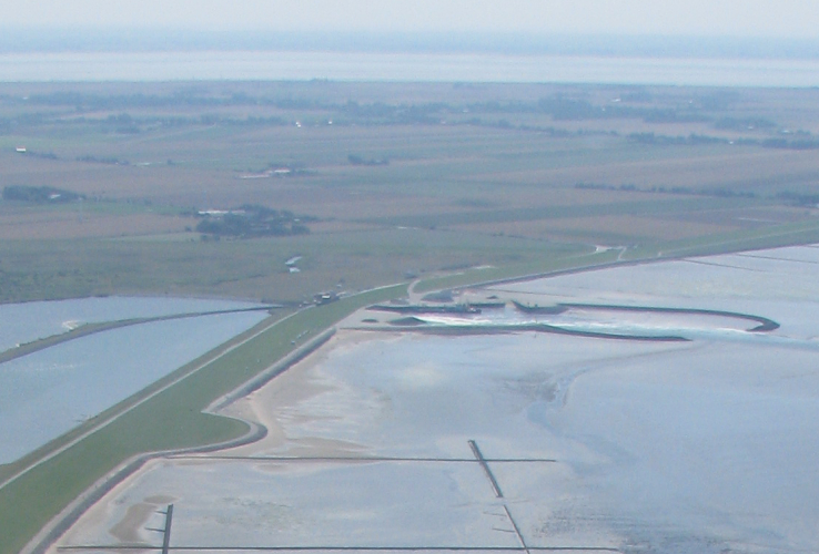 Tidal outlet Holmer Siel at the end of River Arlau in Germany.